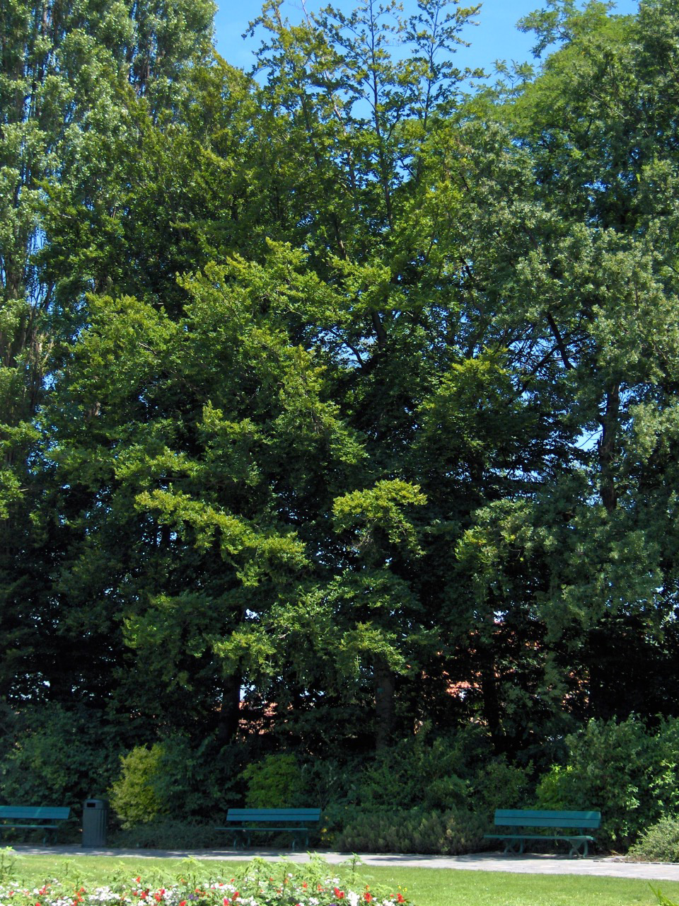 Species Fagus sylvatica Family Fagaceae